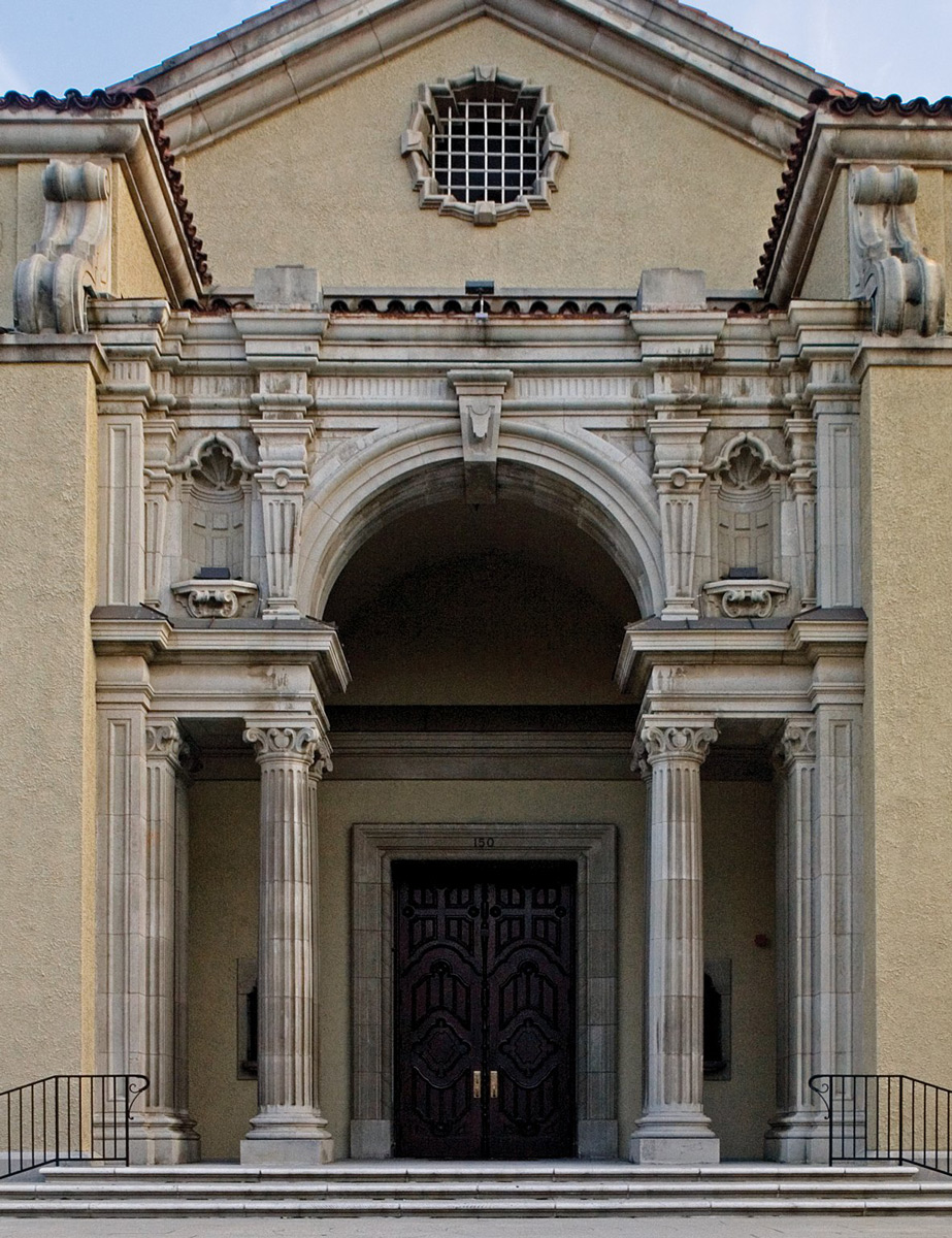 The exterior of the Mabel Shaw Bridges Hall of Music